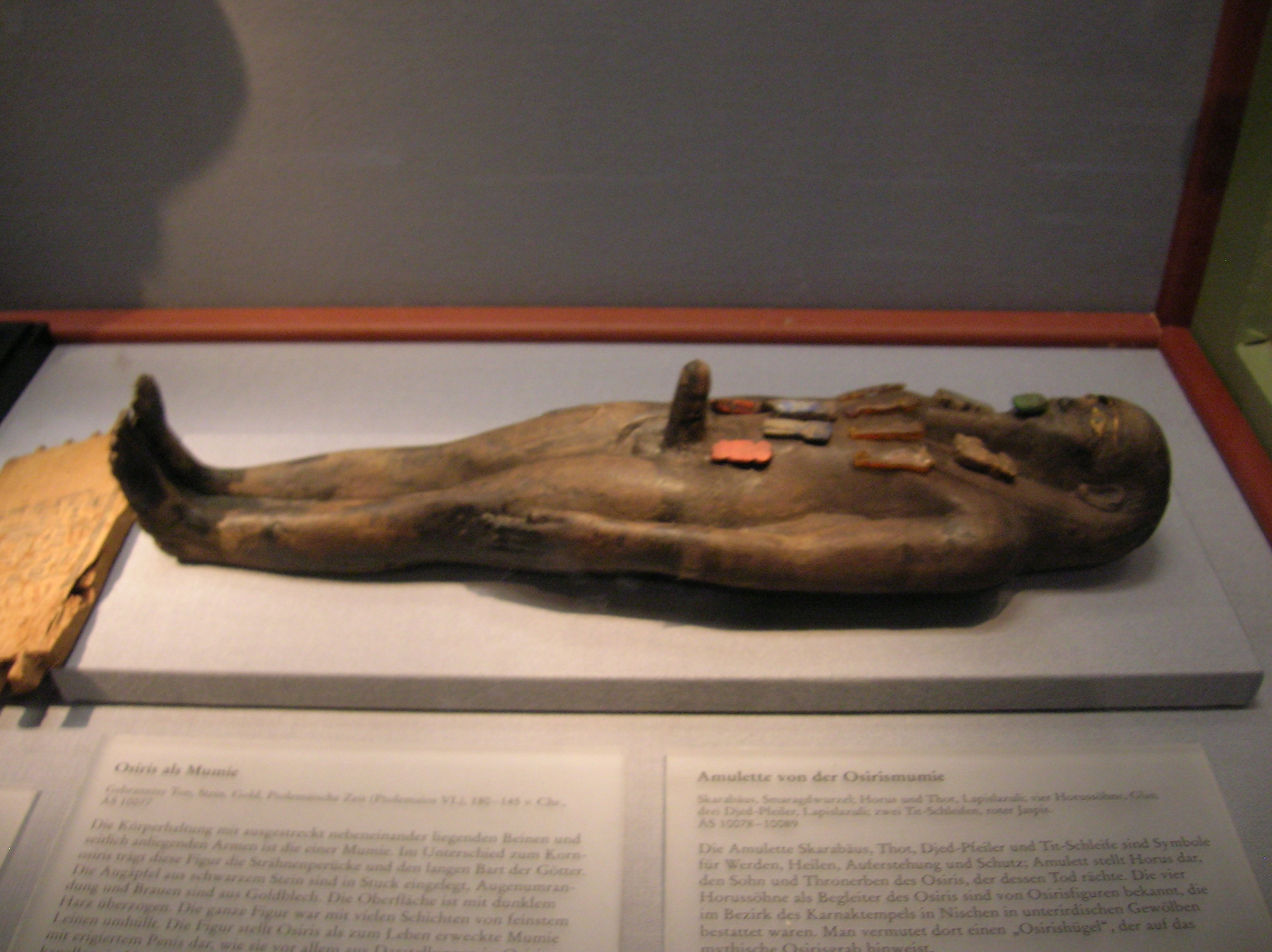 A statuette of Osiris